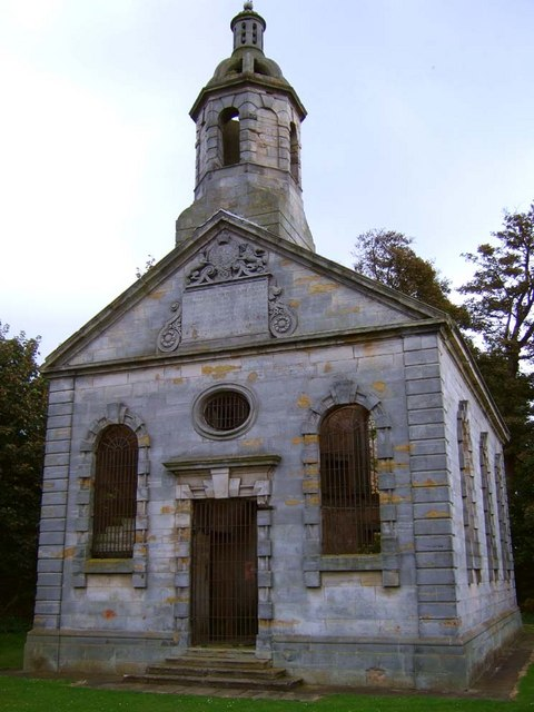 Donibristle Chapel The private mortuary chapel of the Earls of Moray (1731). For a closer look at the tympanum Designed by Alexander McGill. Adopted by Dunfermline District Council in the mid-1980s.